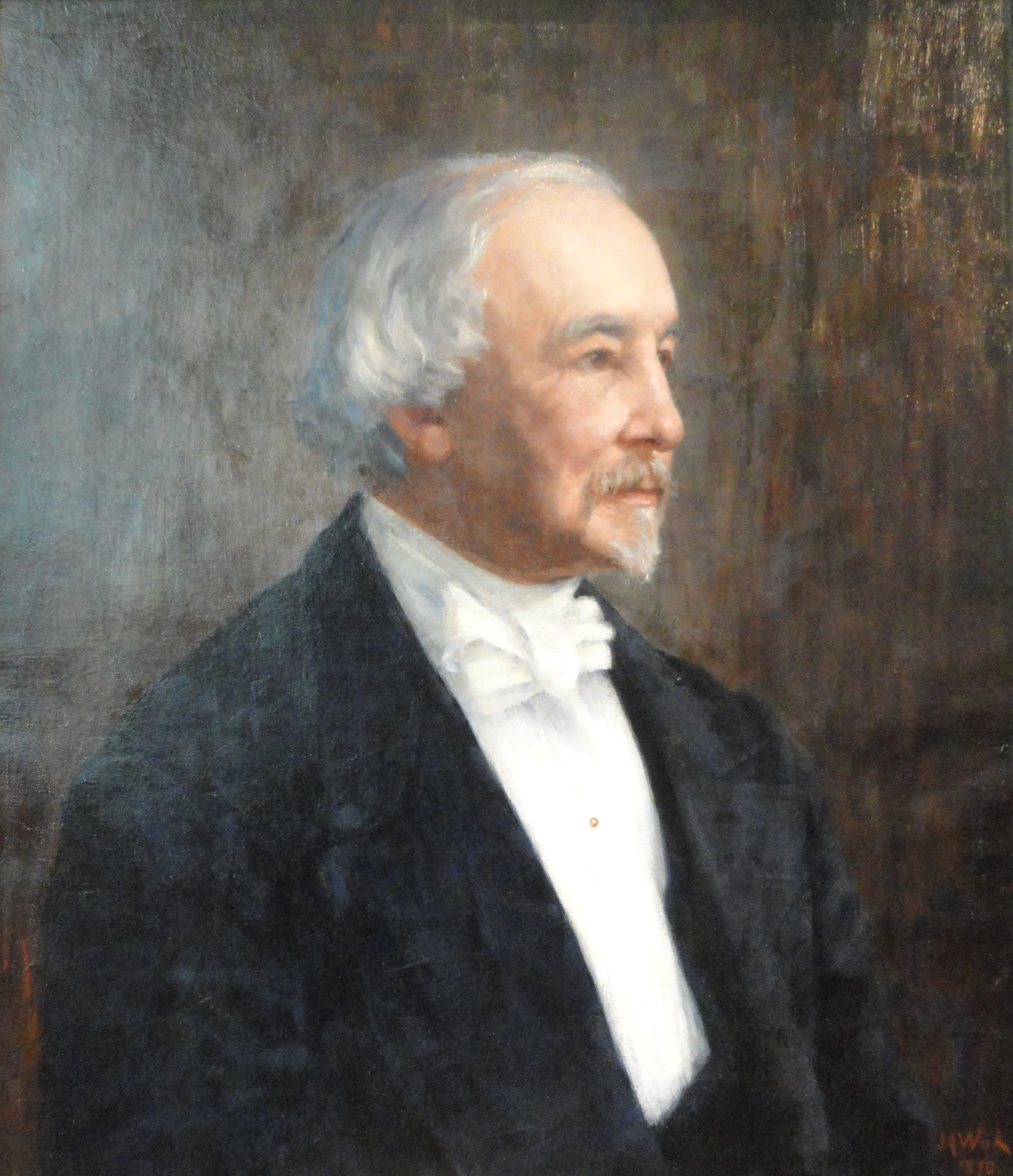 Exhibit in the Arppeanum, Helsinki, Finland. This artwork is in the public domain because the artist died more than 70 years ago.